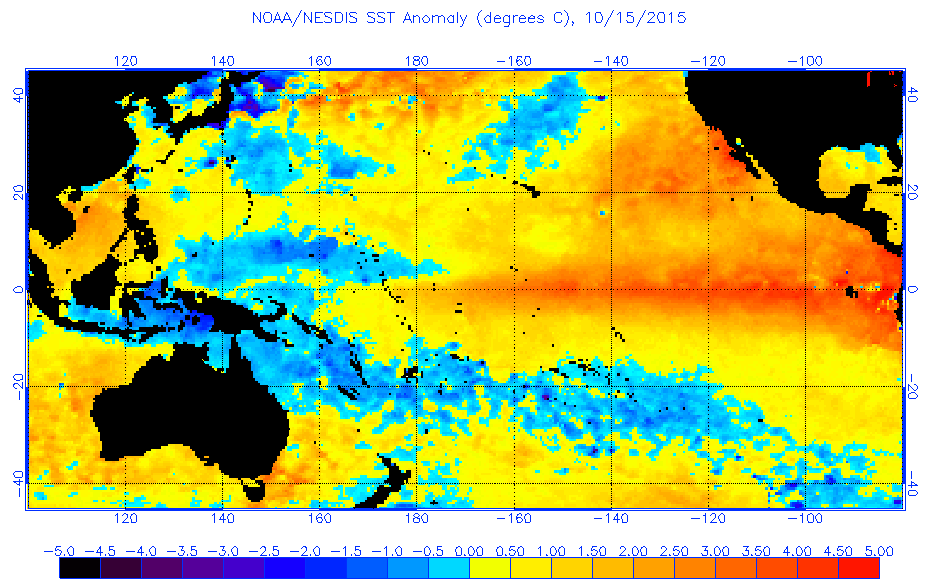 Map showing sea surface temperature anomalies in the Pacific Ocean on October 15, 2015.